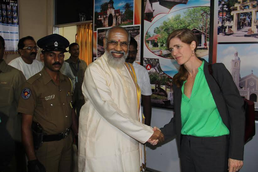 U.S. Ambassador to the U.N. Samantha Power meets Northern Province Chief Minister C. V. Vigneswaran at the Chief Minister’s Secretariat in Chundikuli, Jaffna, Sri Lanka on 22 November 2015.